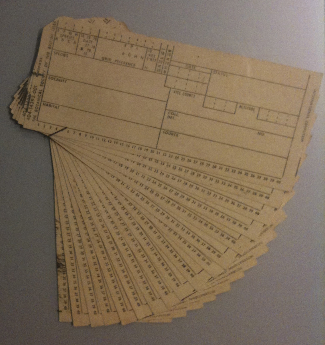 Blank 40-column cards for Powers-Samas accounting systems on display at the Computer History Museum in California. Cards in this format were used by the Botanical Society of the British Isles to store information on plant species. Circa 1954. Cards measure 4.35 by 2 inches.